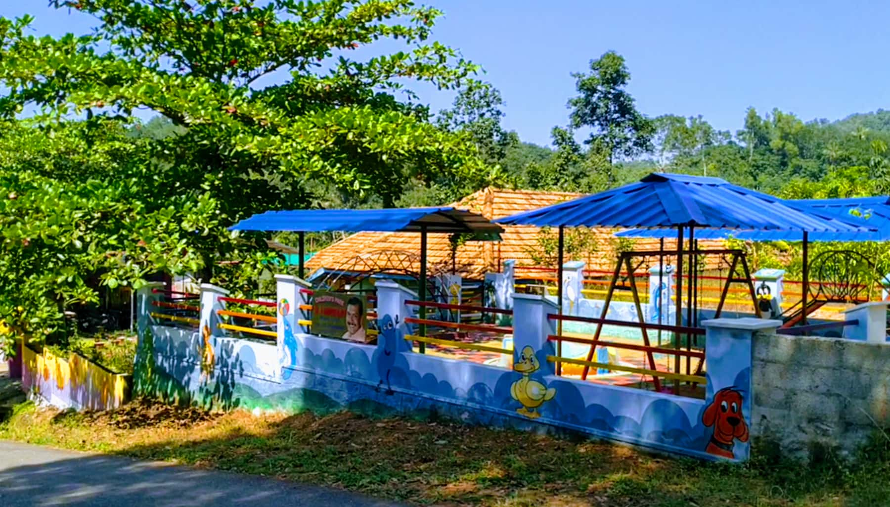 Children's Park in GLPS Kadampanad Bhagavathypuram Aruvikkara ഗവൺമെന്റ്_എൽ.പി.എസ്._കടമ്പനാട്_(ഭഗവതിപുരം-അരുവിക്കര)